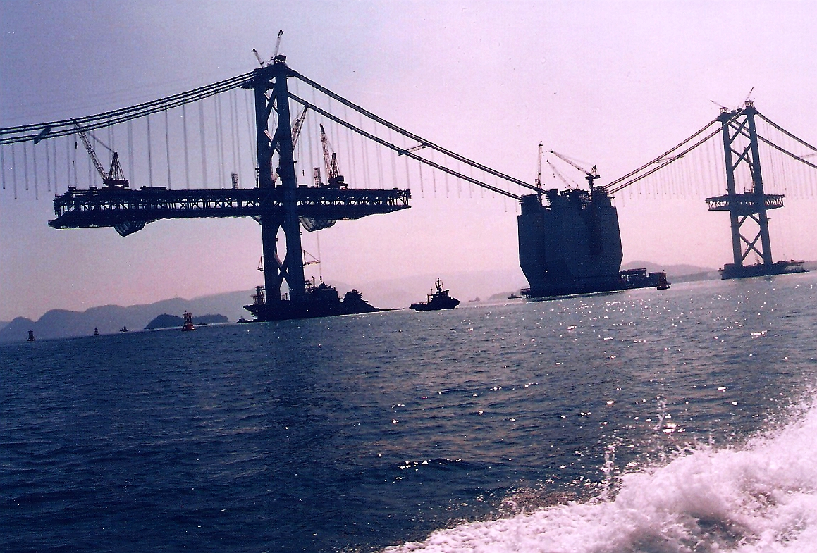 Construction of Great Seto Bridge, Okayama Prefecture and Kagawa Prefecture, Japan